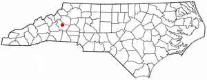 Category:North Carolina Dot Maps